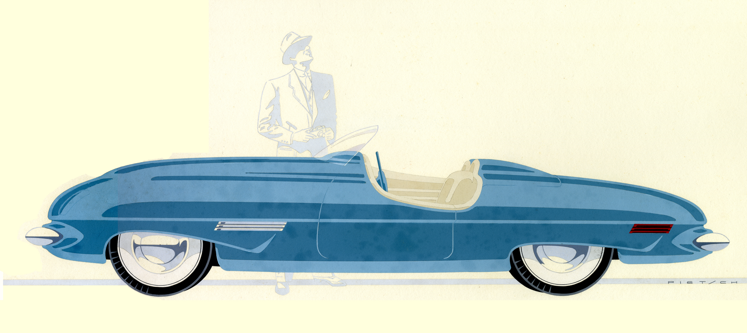 The original drawing has been donated to the Museum of Fine Arts, Boston, but the image posted here was made by me, T. W. Pietsch III. Please see the correspondence below from Jennifer C. Riley, Head of Image Licensing and Digital Archives Museum of Fine Arts, Boston. You may tell them that while the Museum of Fine Arts, Boston owns the artwork; we do not retain the copyright to Theodore Wells Pietsch II’s images. Best, Jennifer Jennifer Riley Head of Image Licensing and Digital Archives Museum of Fine Arts, Boston | 617-369-3777 Dear Mr. Pietsch, Regarding copyright, you retain copyright to any photos you took of the drawings made by your father. The copyright to the artworks and photographs does not revert to the Museum automatically upon donation of the works. The copyright to the photographs that you took stays with you so you have every right to upload those photos to Wikipedia. I am happy to provide you with language necessary for you to pass on to Wikipedia so you can reload the images. Since the Museum does not, in fact, hold the copyright to those photos, we cannot upload them. Best, Jennifer Jennifer Riley Head of Image Licensing and Digital Archives Museum of Fine Arts, Boston | 617-369-3777